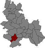 Location of Santa Maria de Miralles in Anoia